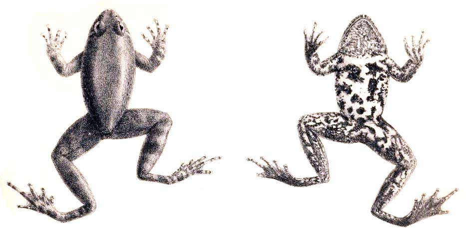 Occidozyga baluensis (Boulenger, 1896), from Boulenger, G. A. 1896. Descriptions of new batrachians in the British Museum. Annals and Magazine of Natural History, Series 6, 17: 401–406.